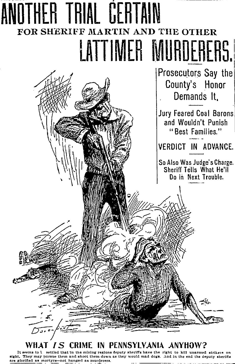 Political cartoon of deputy shooting a mine striker in the back while he is down on the ground. The image has the caption "What is crime in Pennsylvania anyhow?" The image is in reference to the Lattimer massacre of coal miners in 1897.